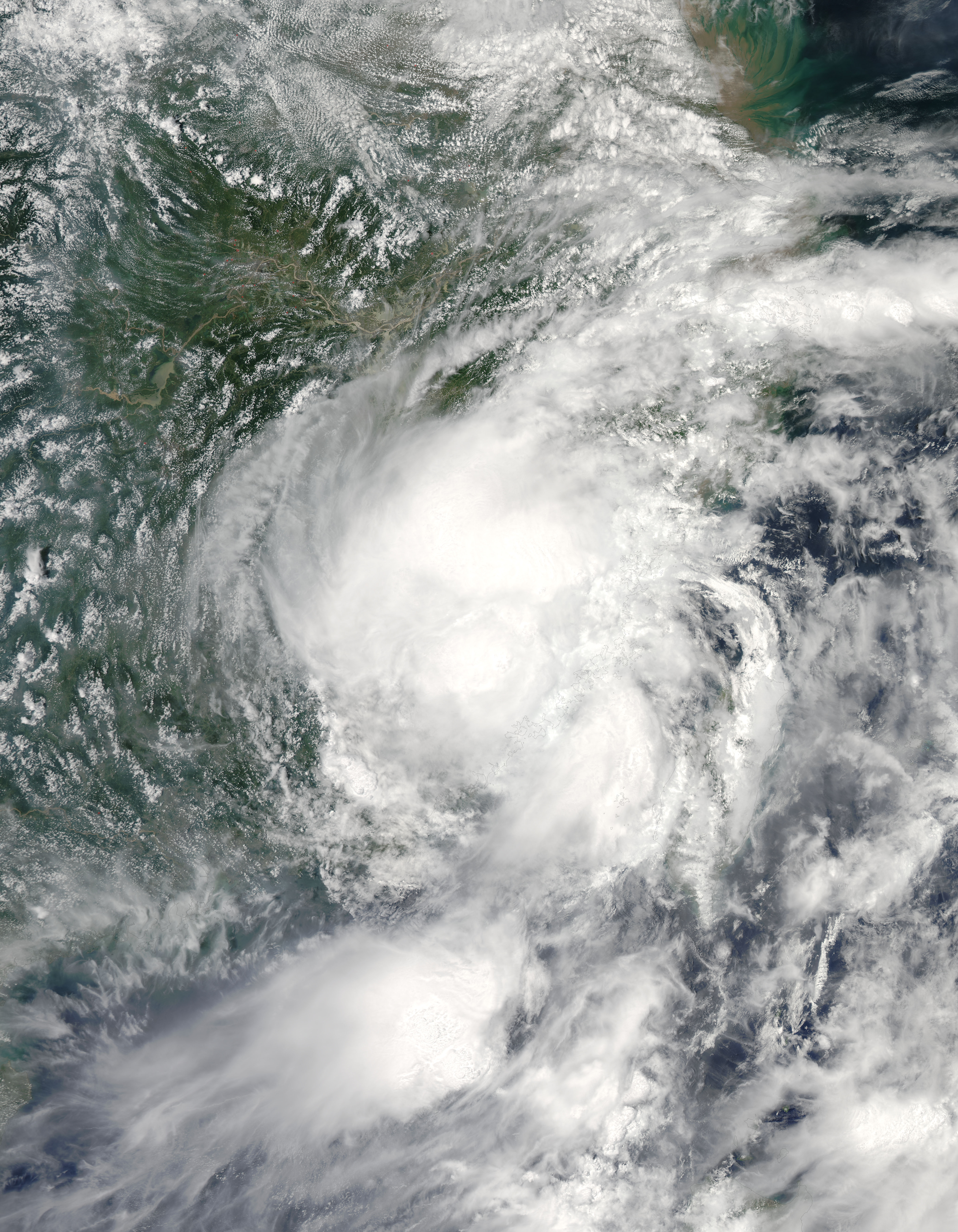 Tropical Storm Nepartak over Fujian, China on July 9, 2016.